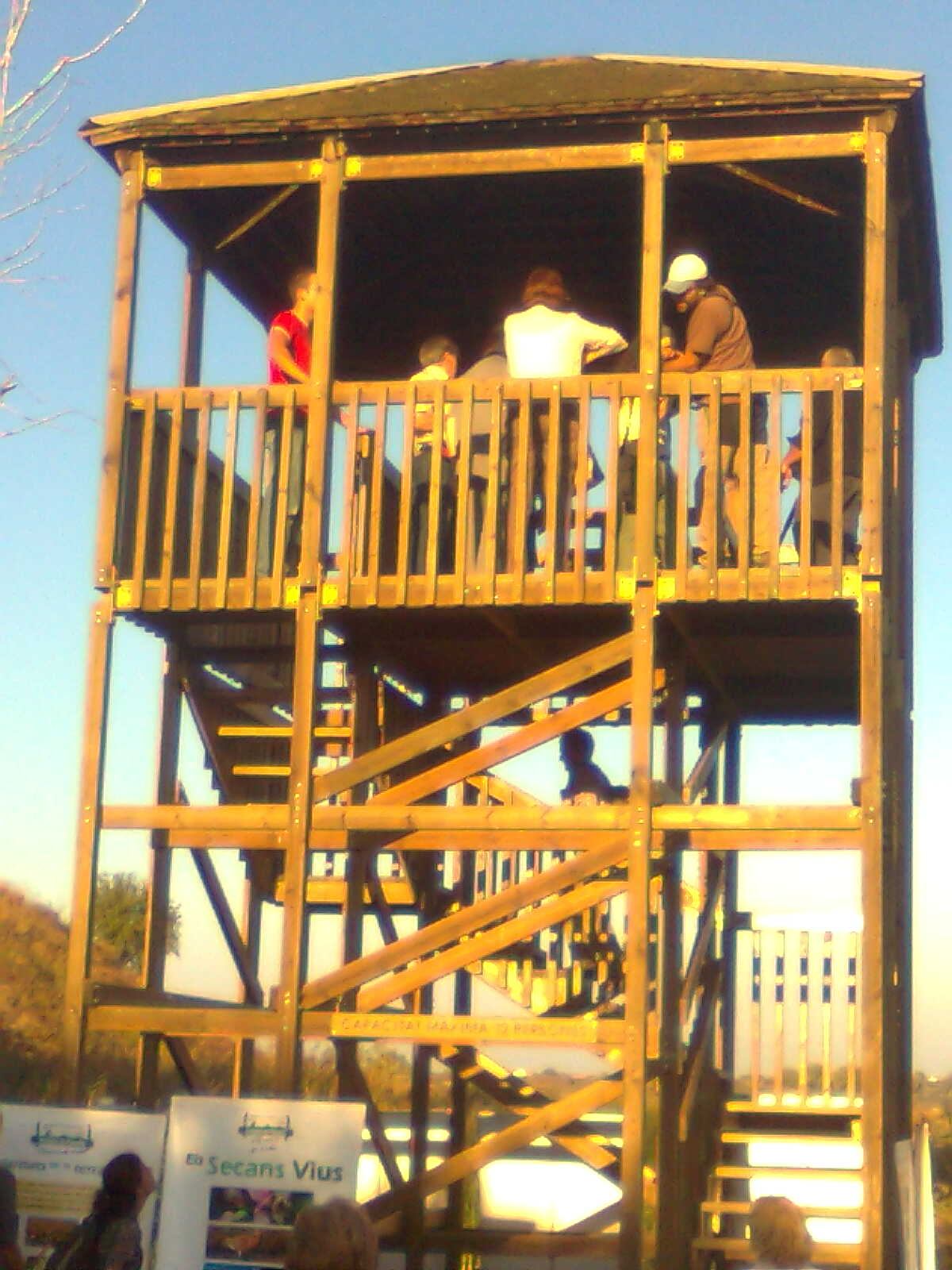 Observation tower of the flora and fauna located in the Lake of Ivars i Vila-sana